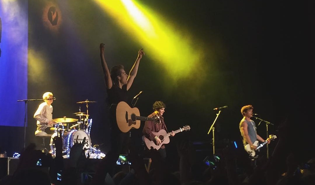 The Vamps' fanfest in London, october 2015.